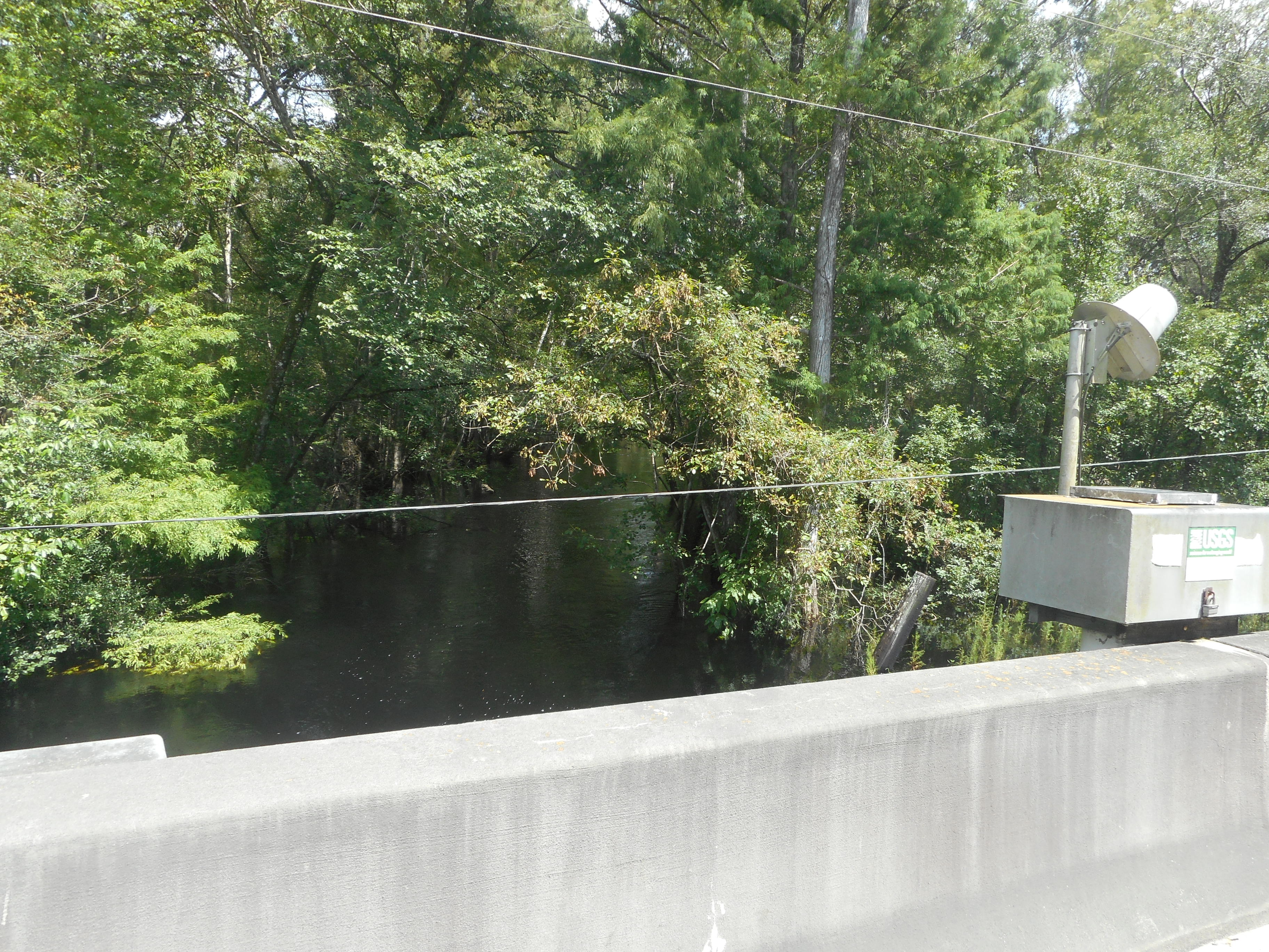 Images related to the US Route 301 bridge over the Little Withlacoochee River between Hernando and Sumter Counties in Florida. Further details to come later.